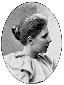 Image scanned from the book "Svenskt Porträttgalleri XX - Arkitekter, Bildhuggare, Målare m.fl. " ("Swedish Portrait Gallery XX - Architects, Sculptors, Painters, ") published 1901